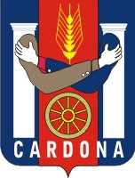 Logo of the Cardona City, Uruguay.